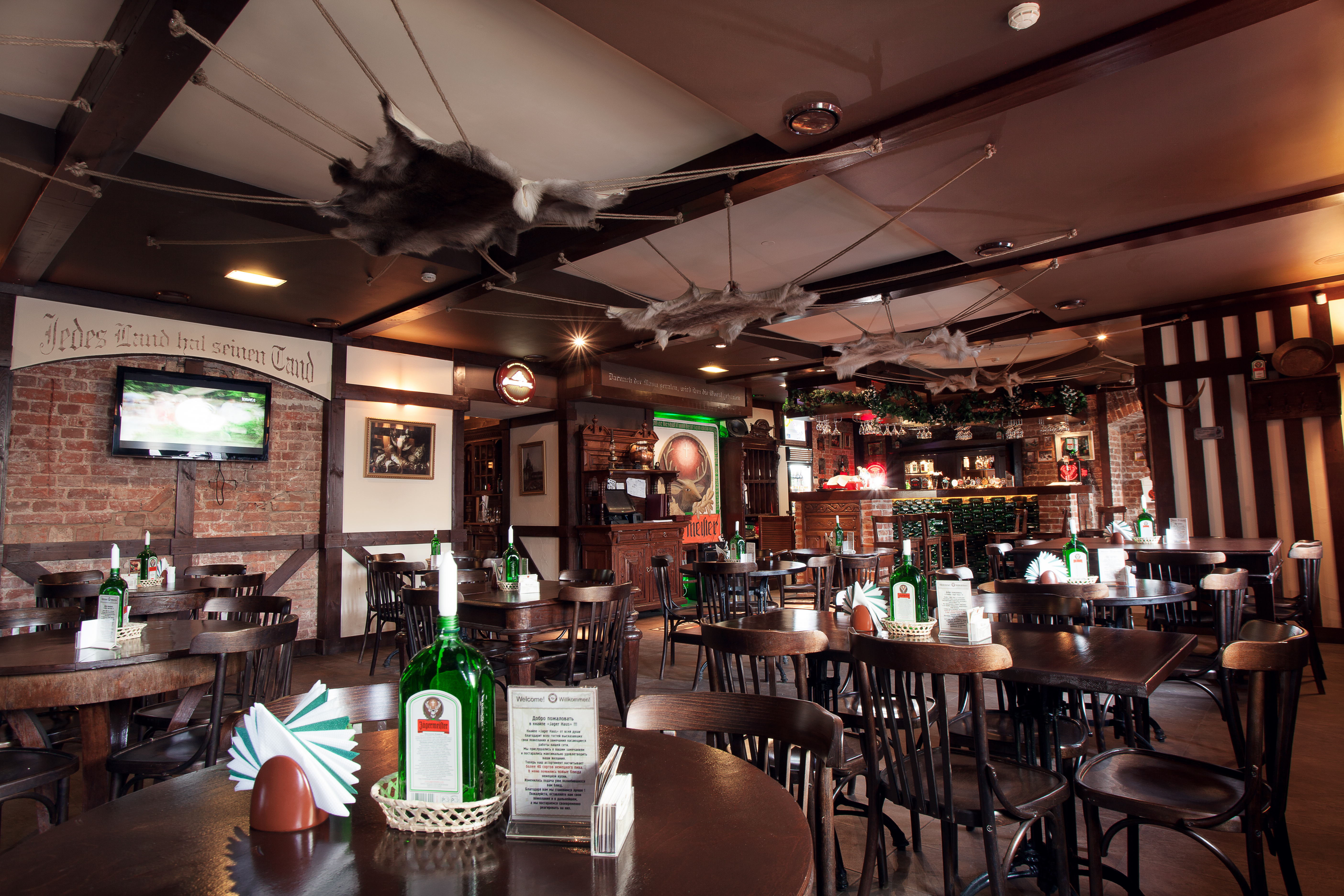 Jagerhaus — kneipe in Saint-Petersburg, Russia